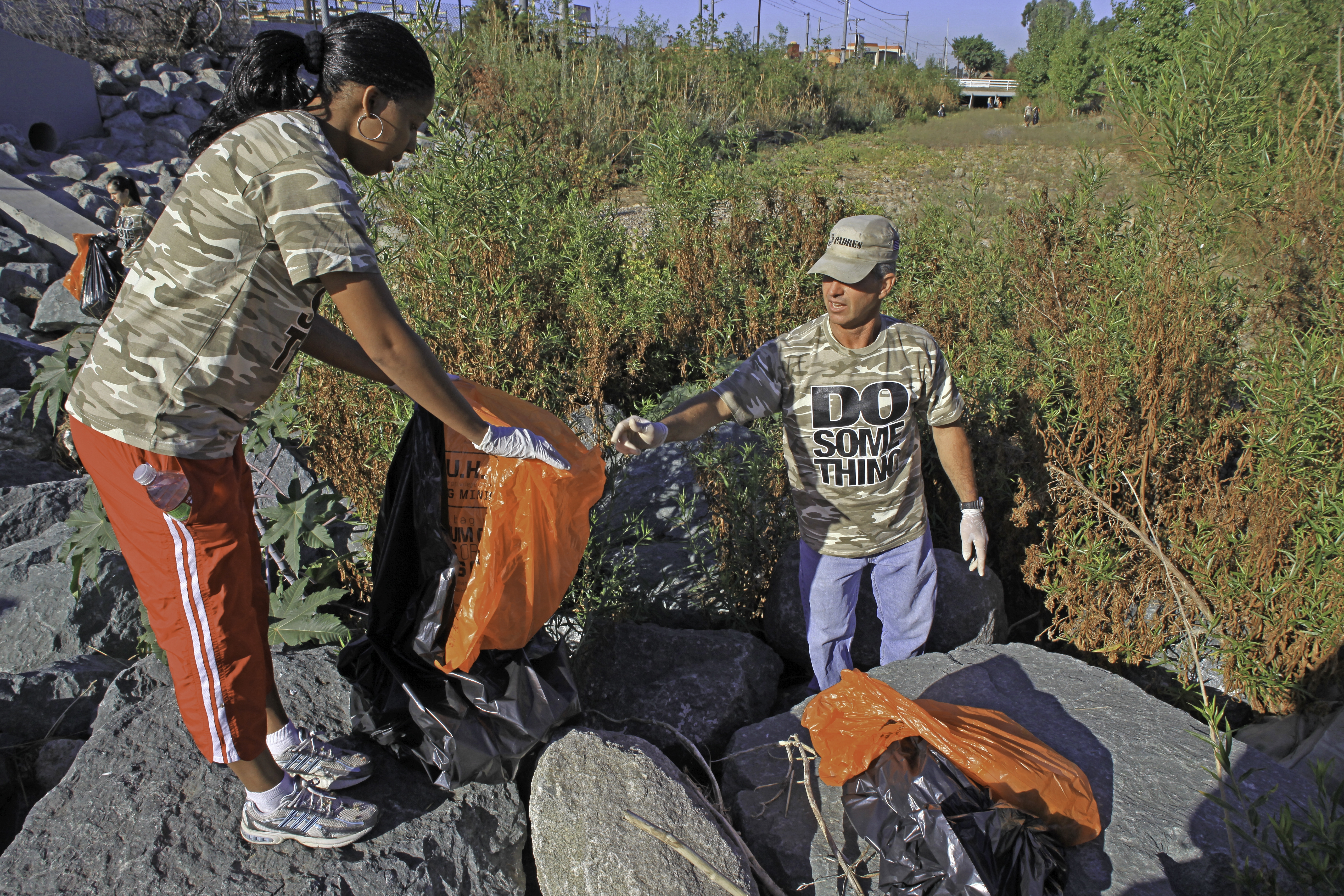 Environmental protection, Rock Church DO Something Event